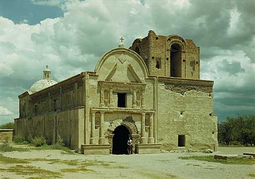 Approximate Year: 1947 Park: Tumacacori NHP Photographer: Grant, George A. Description: The Mission Church from the Southwest. Uniformed woman in doorway is Sally (Brewer) Harris. Additional Comments: Please note the date of this image. 5" x 7" original. Please note Sally's outfit. We believe this to be the earliest known COLOR image of a woman in an NPS "uniform".